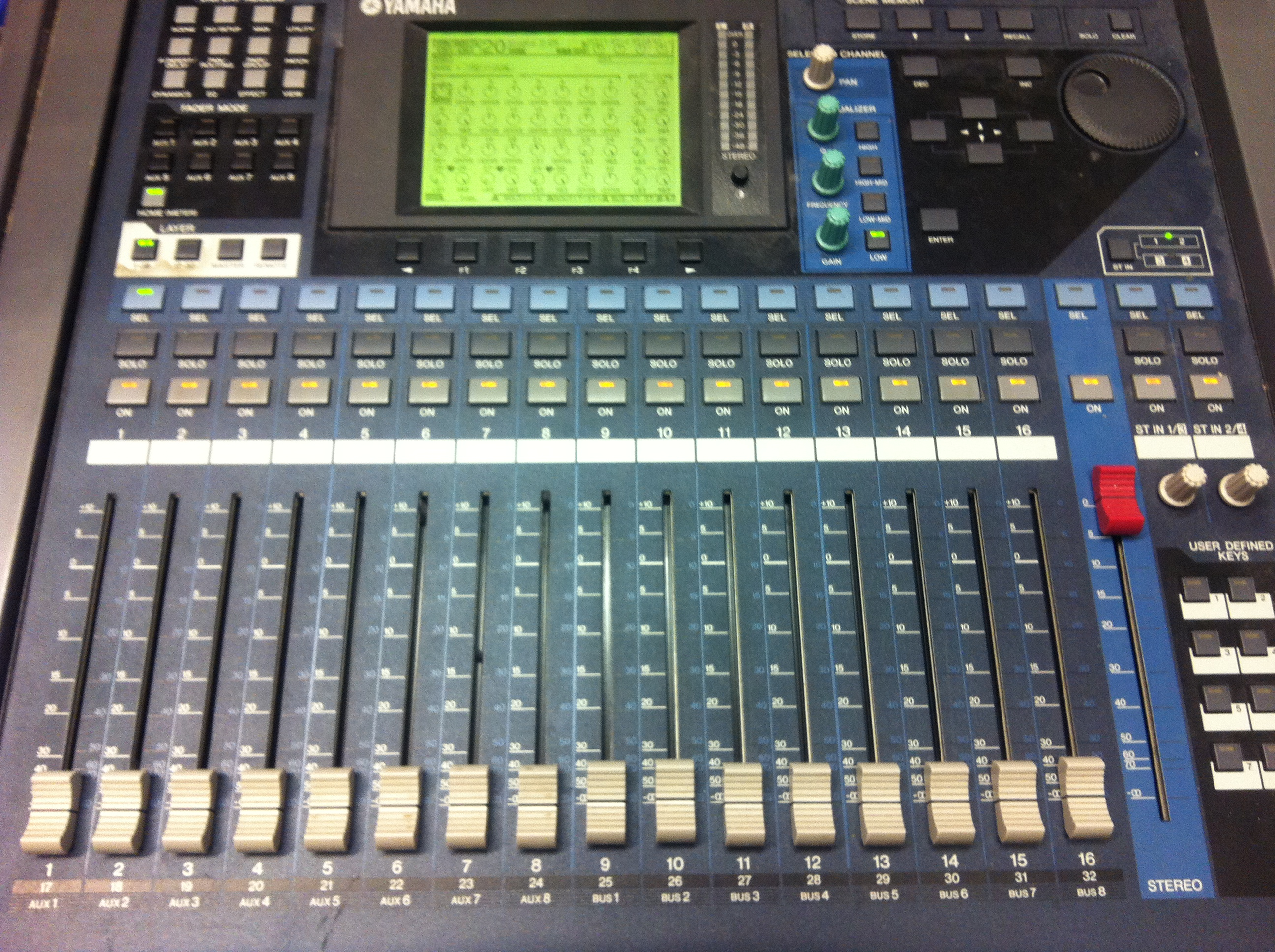 This is a picture of a digital sounddesk